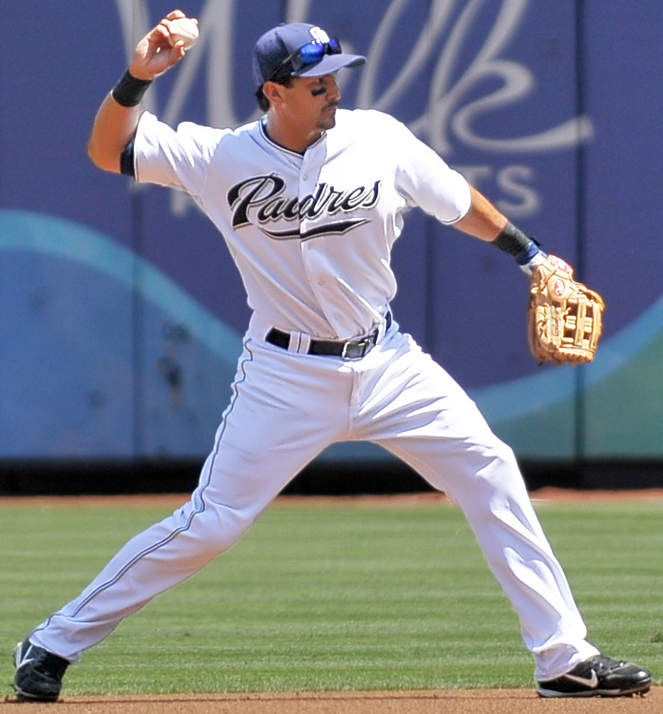 Edgar Gonzalez